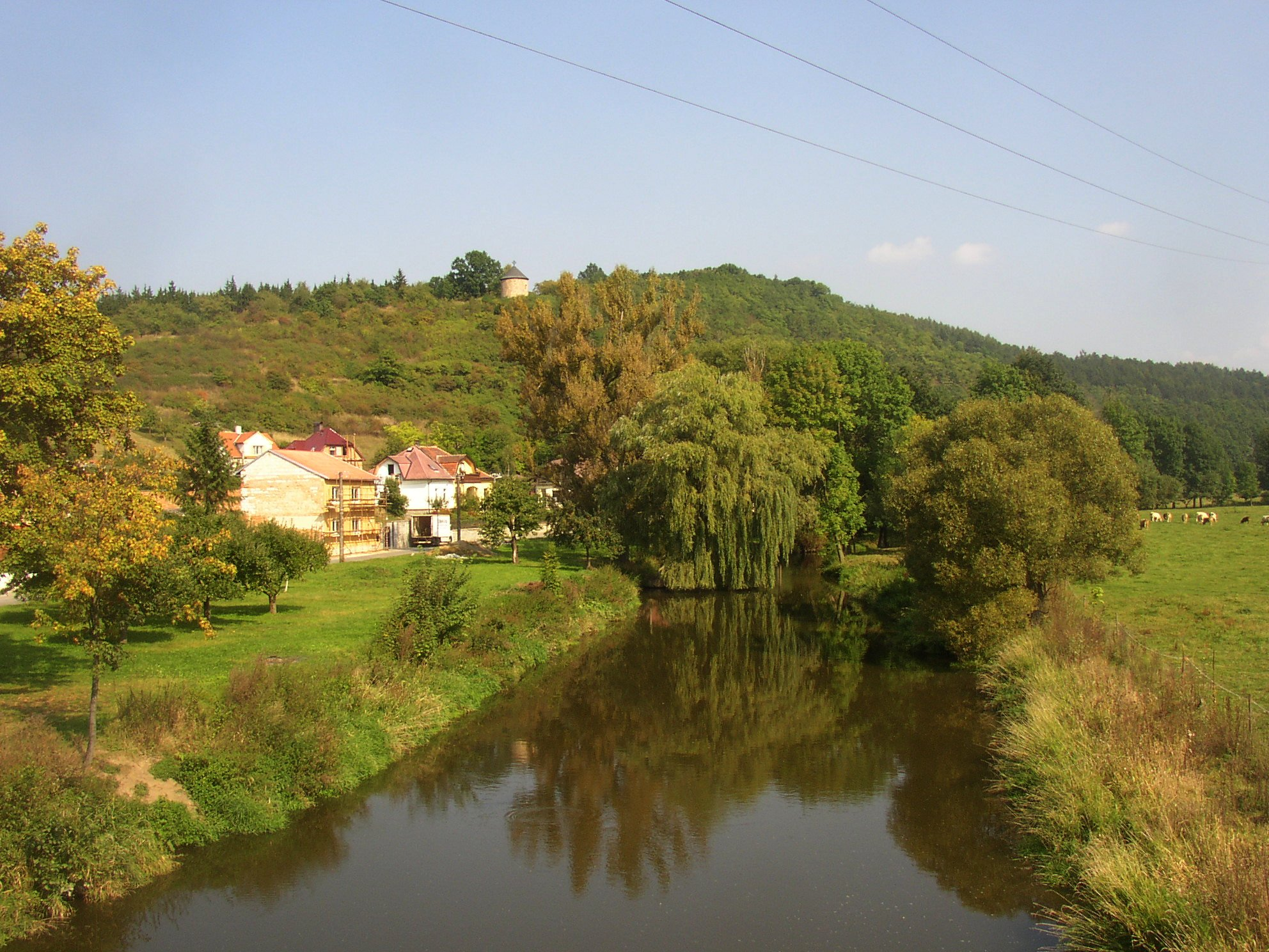 Úslava River in Starý Plzenec, Plzeň-City District, Czech Republic. A view upstream with hill of Hůrka and Rotunda of St Peter in the background.